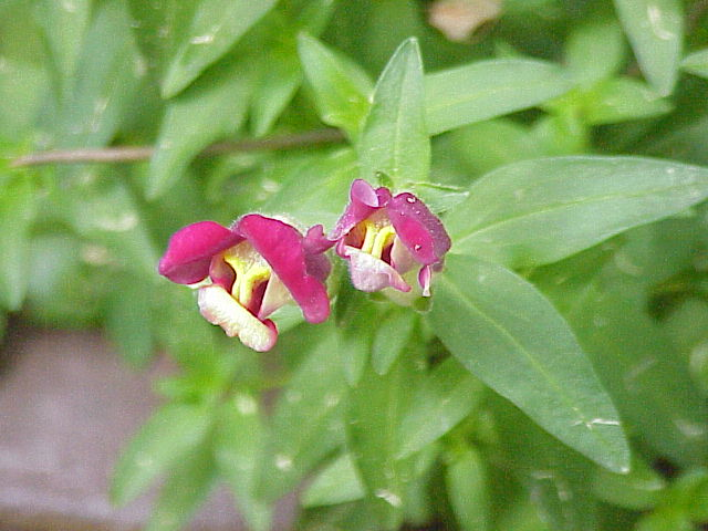 Species: Antirrhinum majus Family: Scrophulariaceae Image No. 1